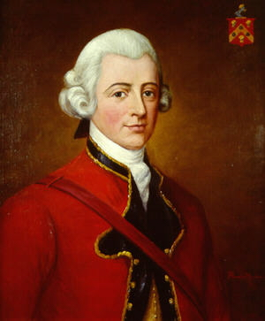 Portrait of Sir Robert Eden, 1st Baronet, of Maryland (c.1741-1784)